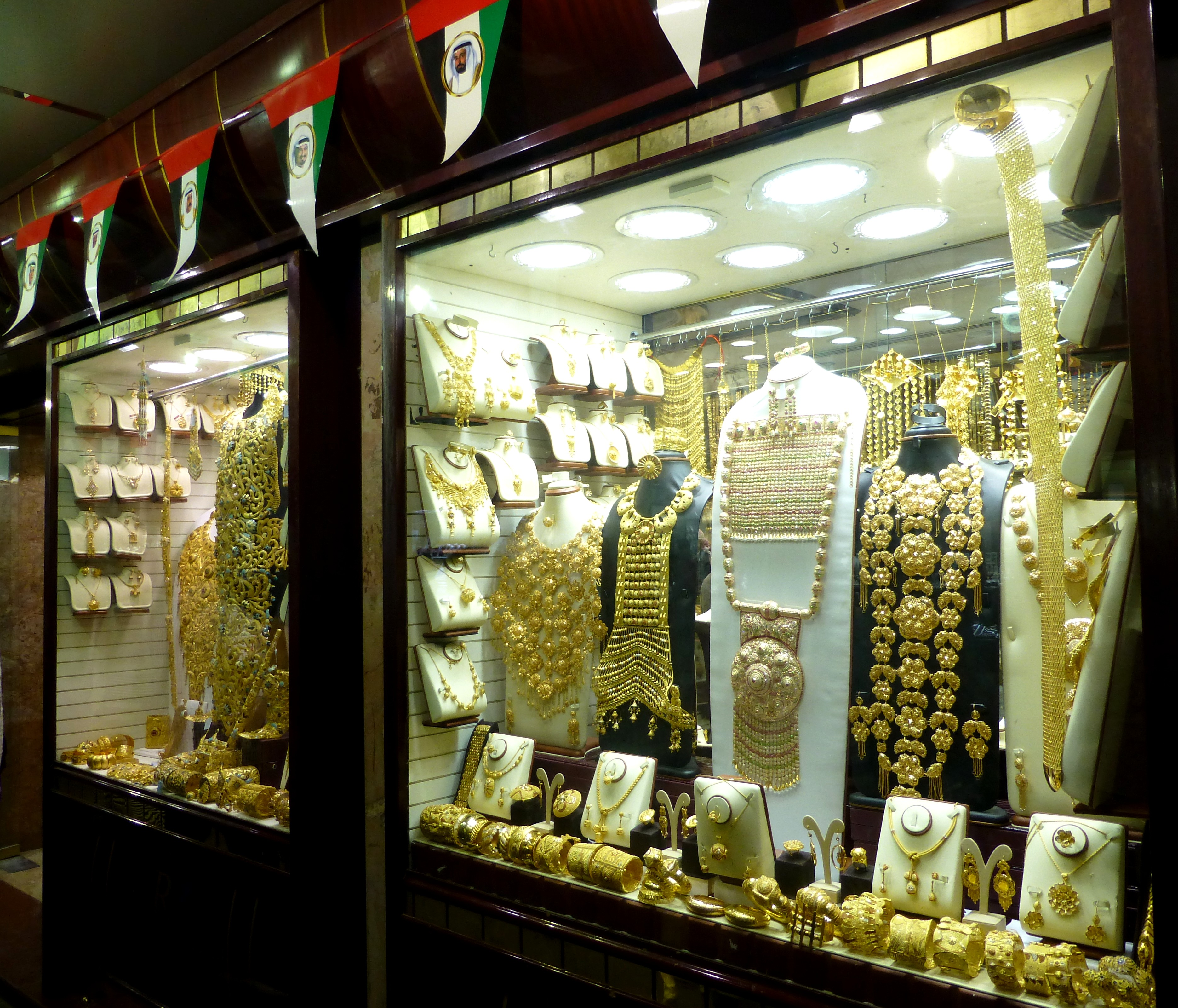 Dubai - City of Gold – Gold Souk --- مدينة الذهب